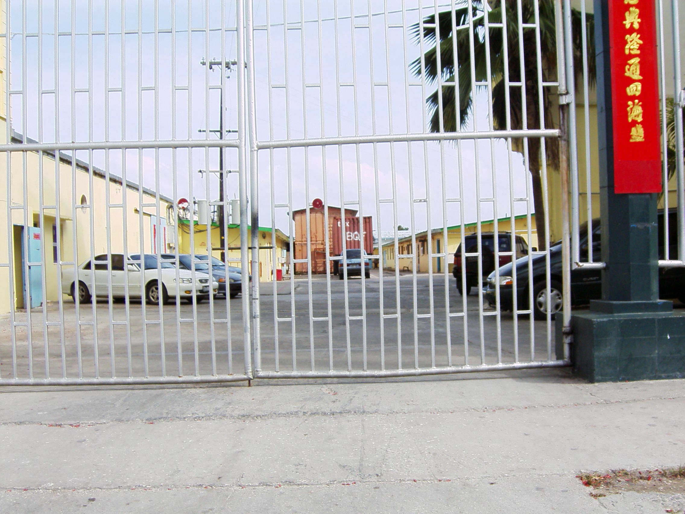 Worker barracks at garment factory on Saipan.